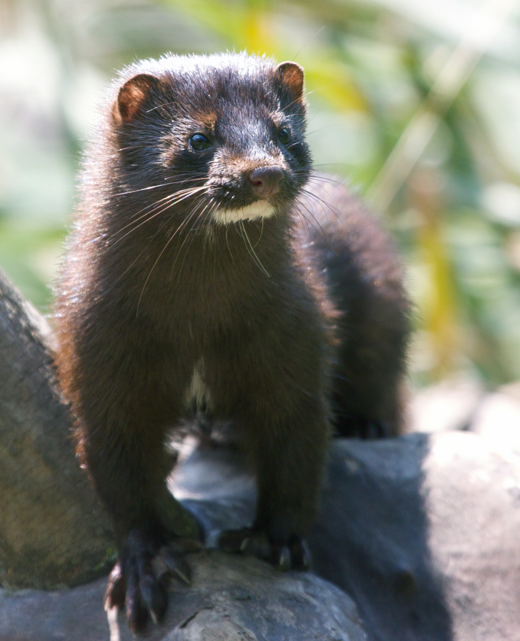 Neovison vison vison in Swansea, Toronto